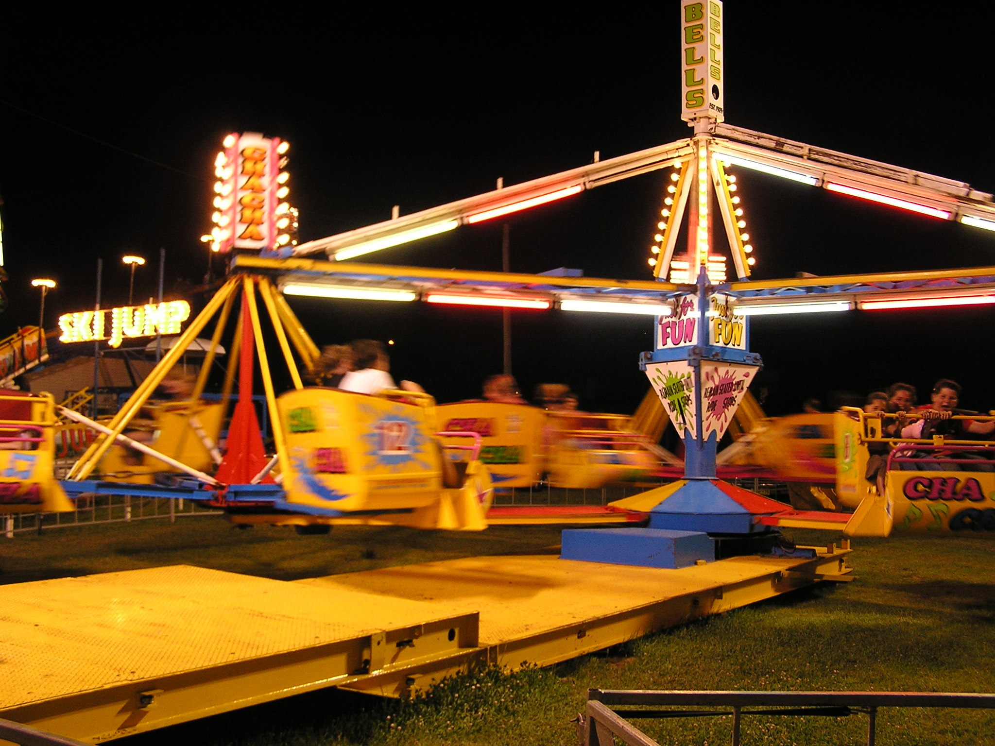 Cha Cha ride at Batemans Bay, New South Wales, Australia. Internationally the ride is known as the Twist or Twister, Cyclone, Sizzler, Scrambler or Grasscutter. The Batemans Bay fair is run by Bells and operates each summer.